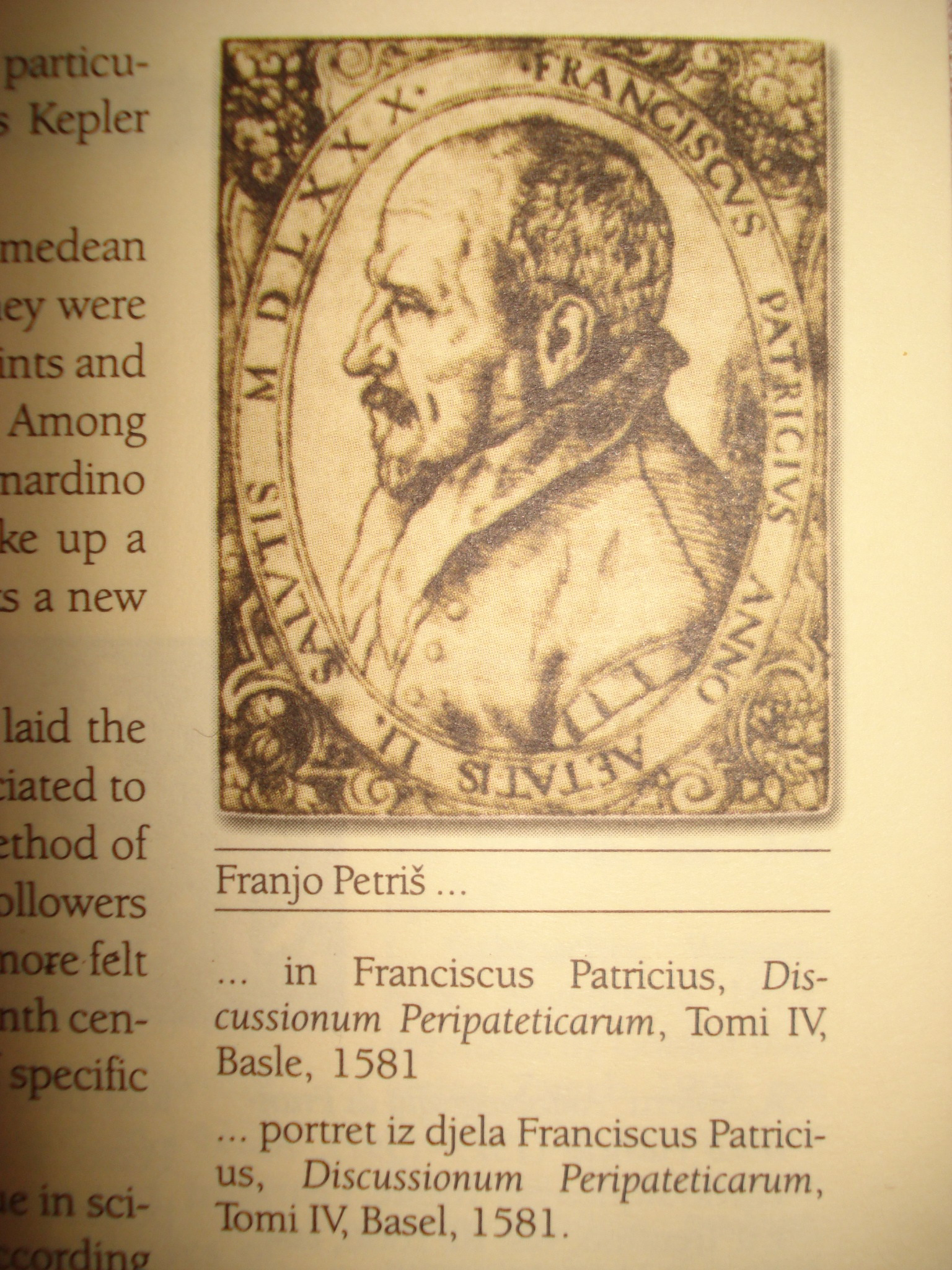 Franjo Petriš (Latin: Franciscus Patricius) /1529-1597/, Croatian philosopher and scientist who resided in Italy - portrait from 1580, published in his work "Discussionum Peripateticarum", fourth volume (Basle, 1581)